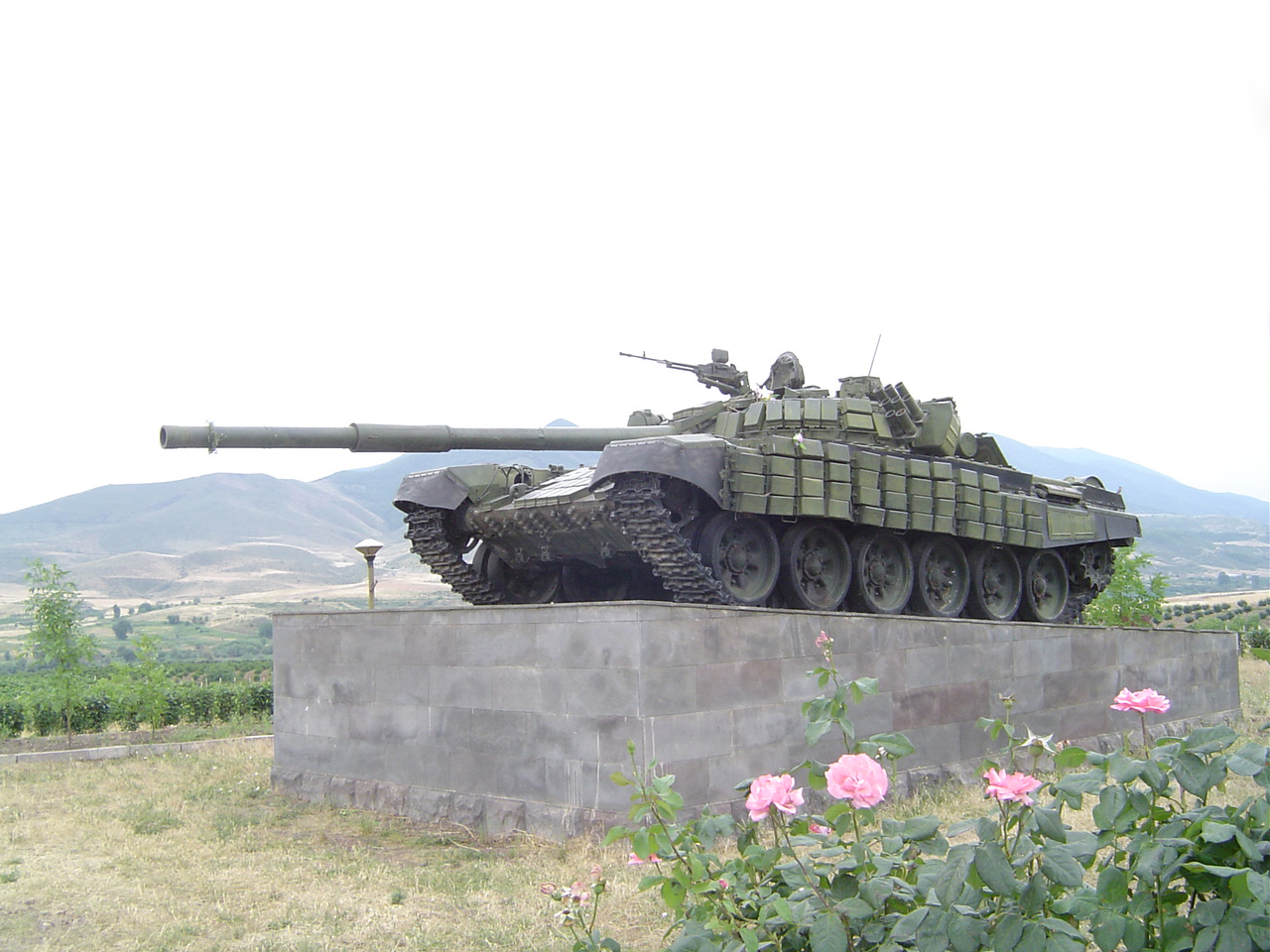 An Armenian T-72 tank memorial found near the outskirts of the city of Stepanakert, Nagorno-Karabakh. The tank was advancing to attack Azeri positions in Askeran where it hit a mine, and all its occupants were killed in the explosion.